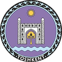 Coat of arms of the city of Tashkent (project)